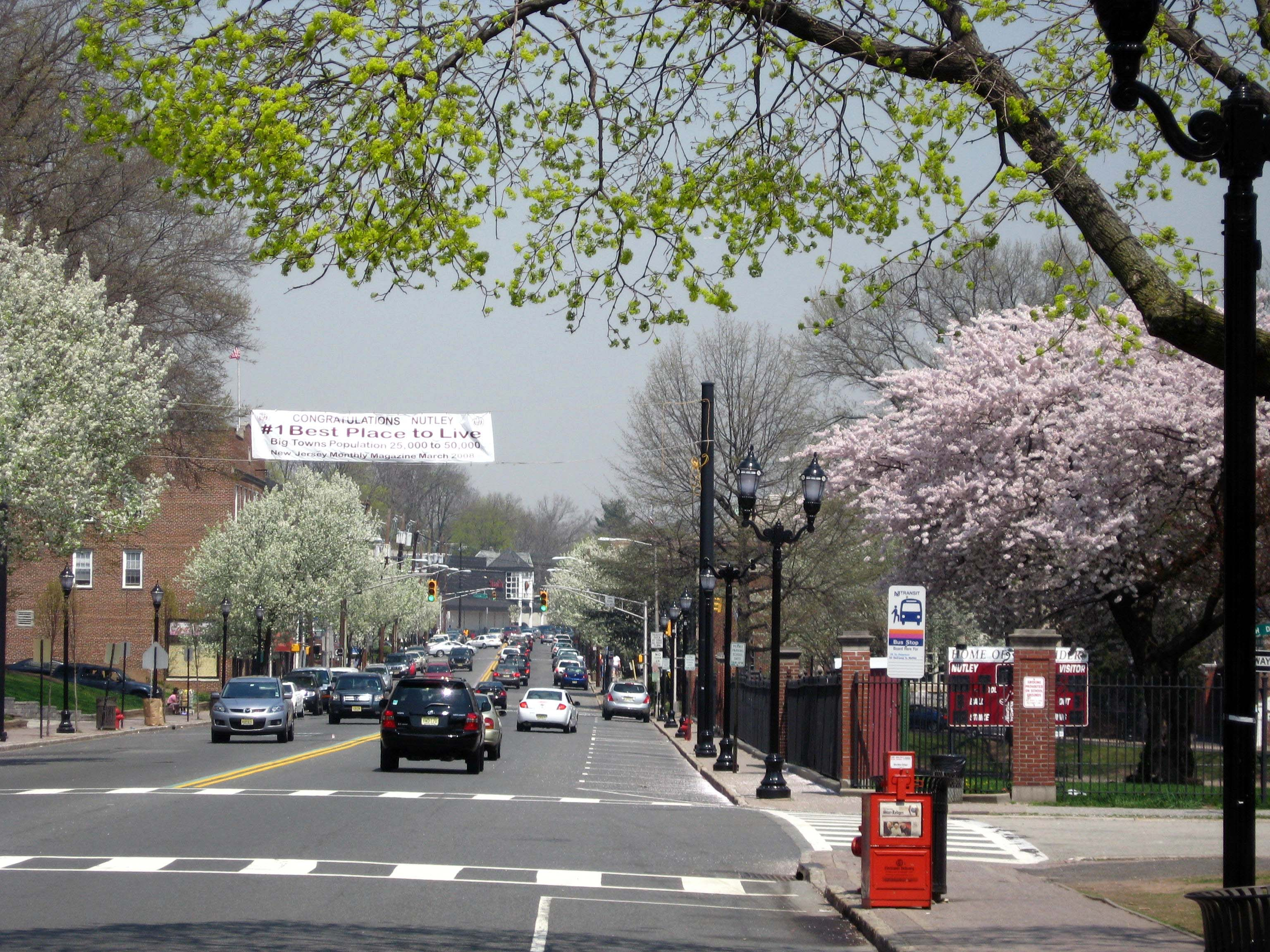 Nutley looking northeast on Franklin Avenue past the high school with pear trees in bloom.